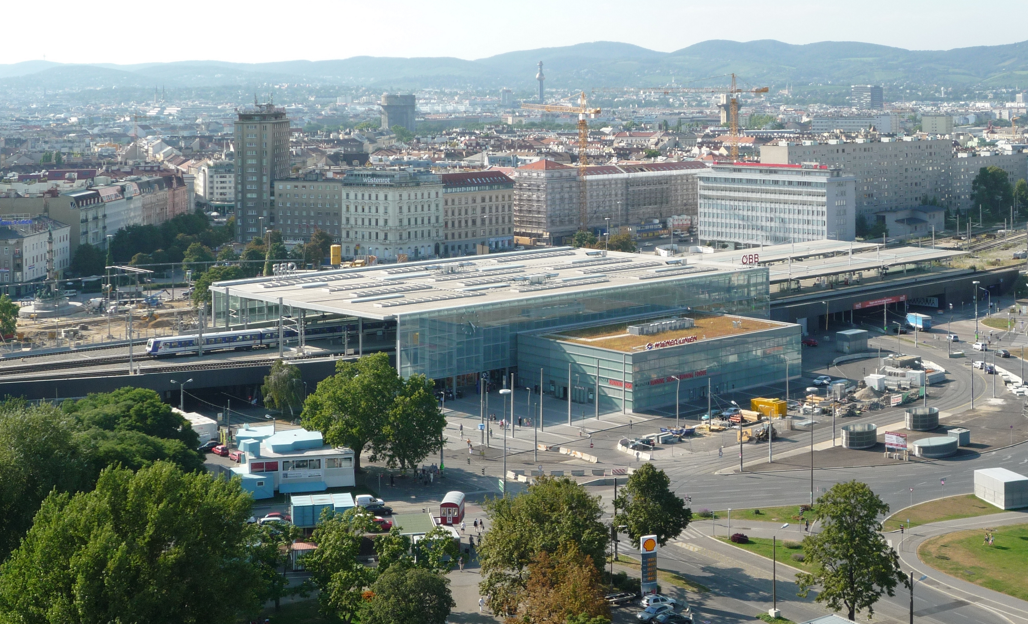 View on station Praterstein as seen from Riesenrad. Perspective correction with ShiftN